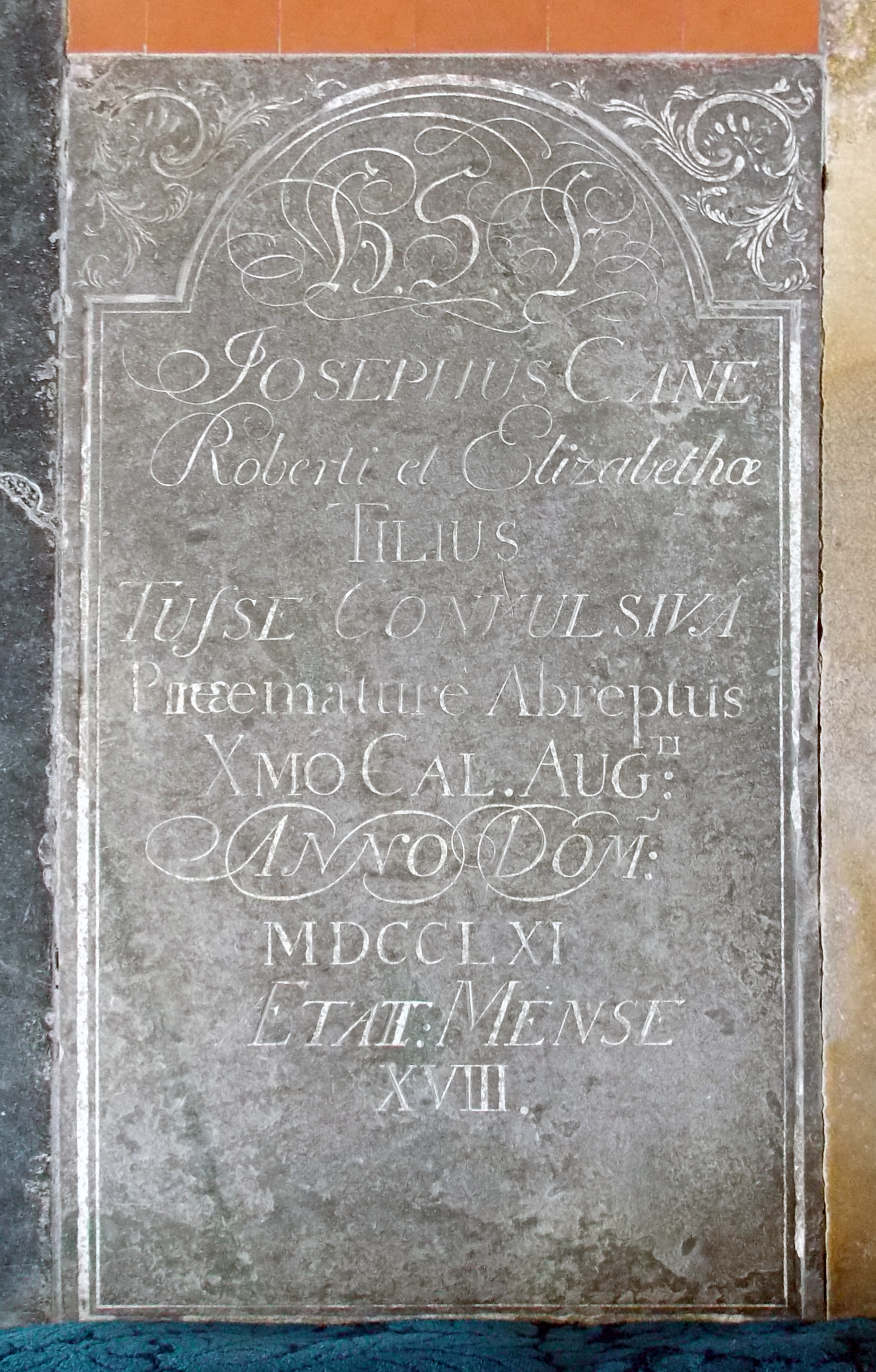 Harlaxton St Mary and St Peter's Church – Chancel floor tomb slab to Joseph Cane